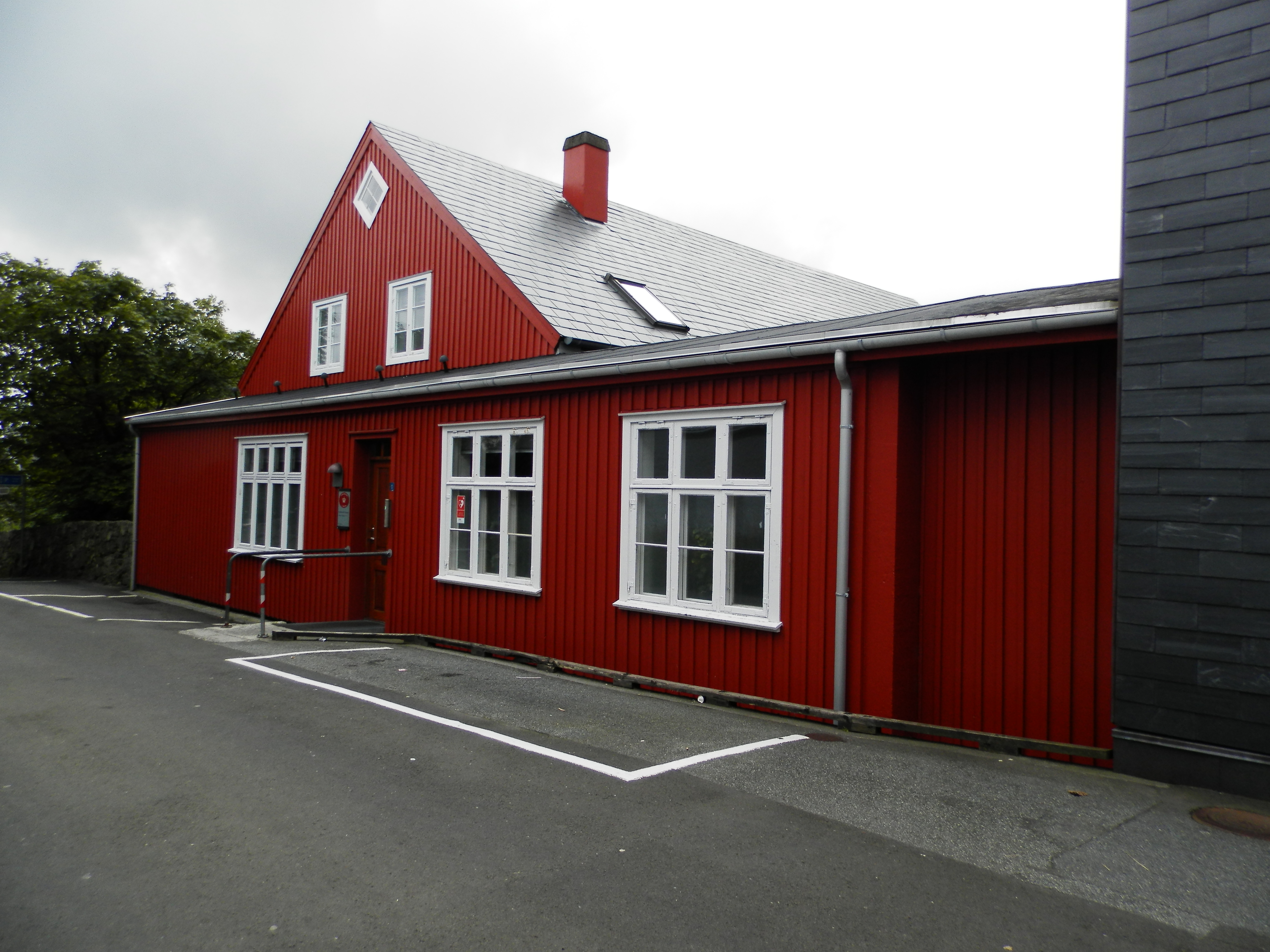 The Court of the Faroe Islands. Sorinskrivarin. C. Pløyensgøta 1, Tórshavn.